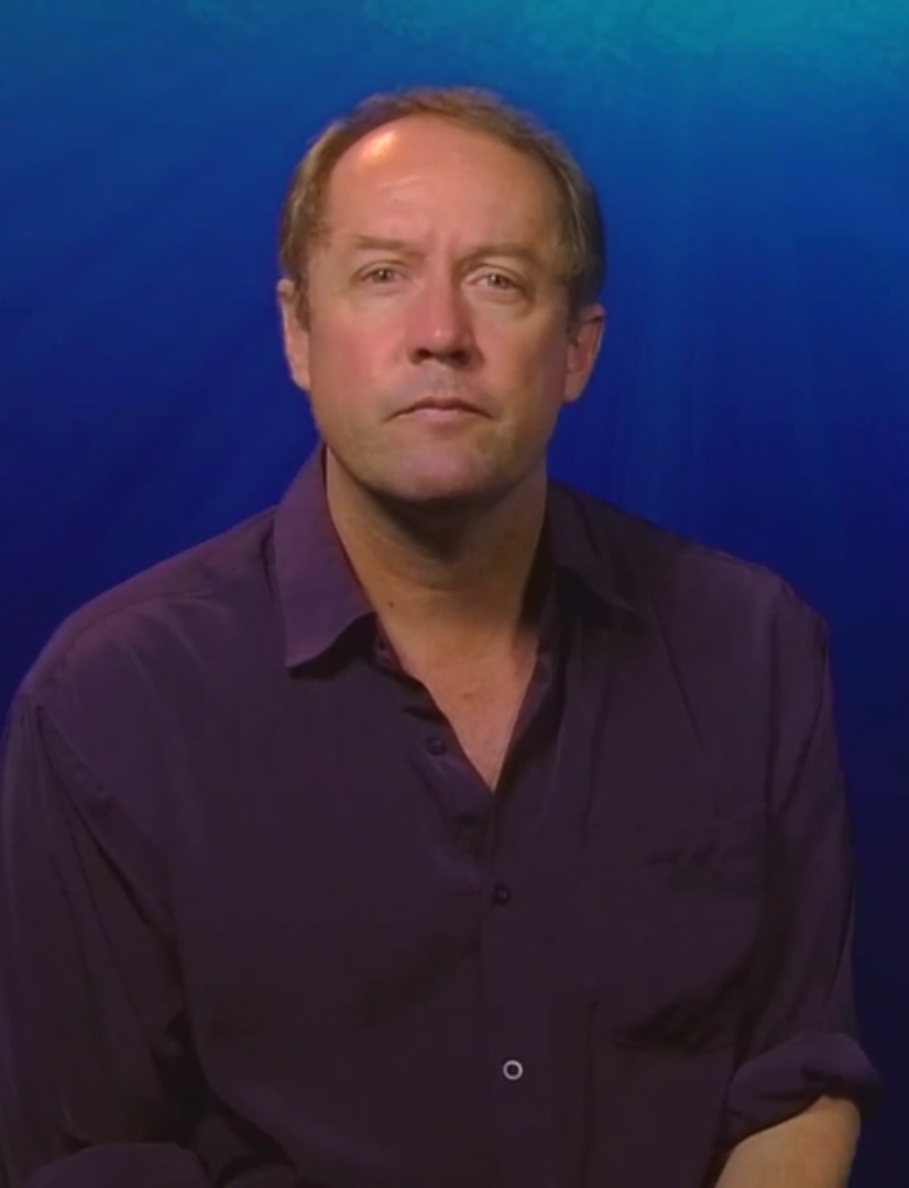 UQx TROPIC101x 6.2.1 Marine Protected Area Systems